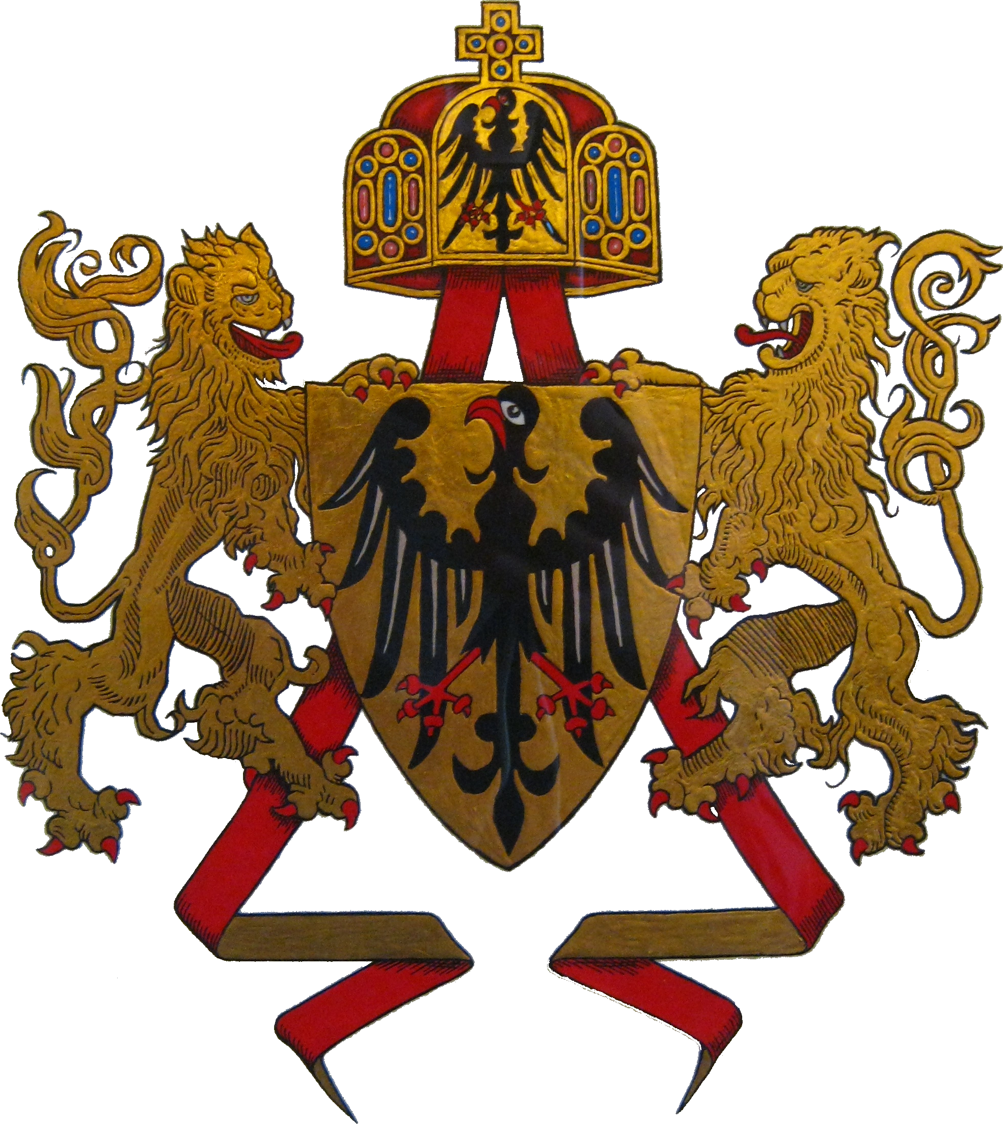 Greater coat of arms of Aachen